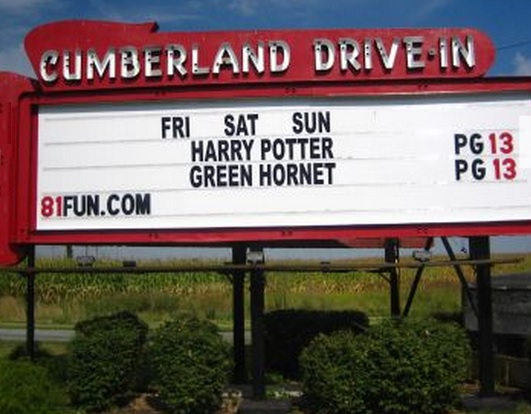 Cumberland Drive-In Marquis